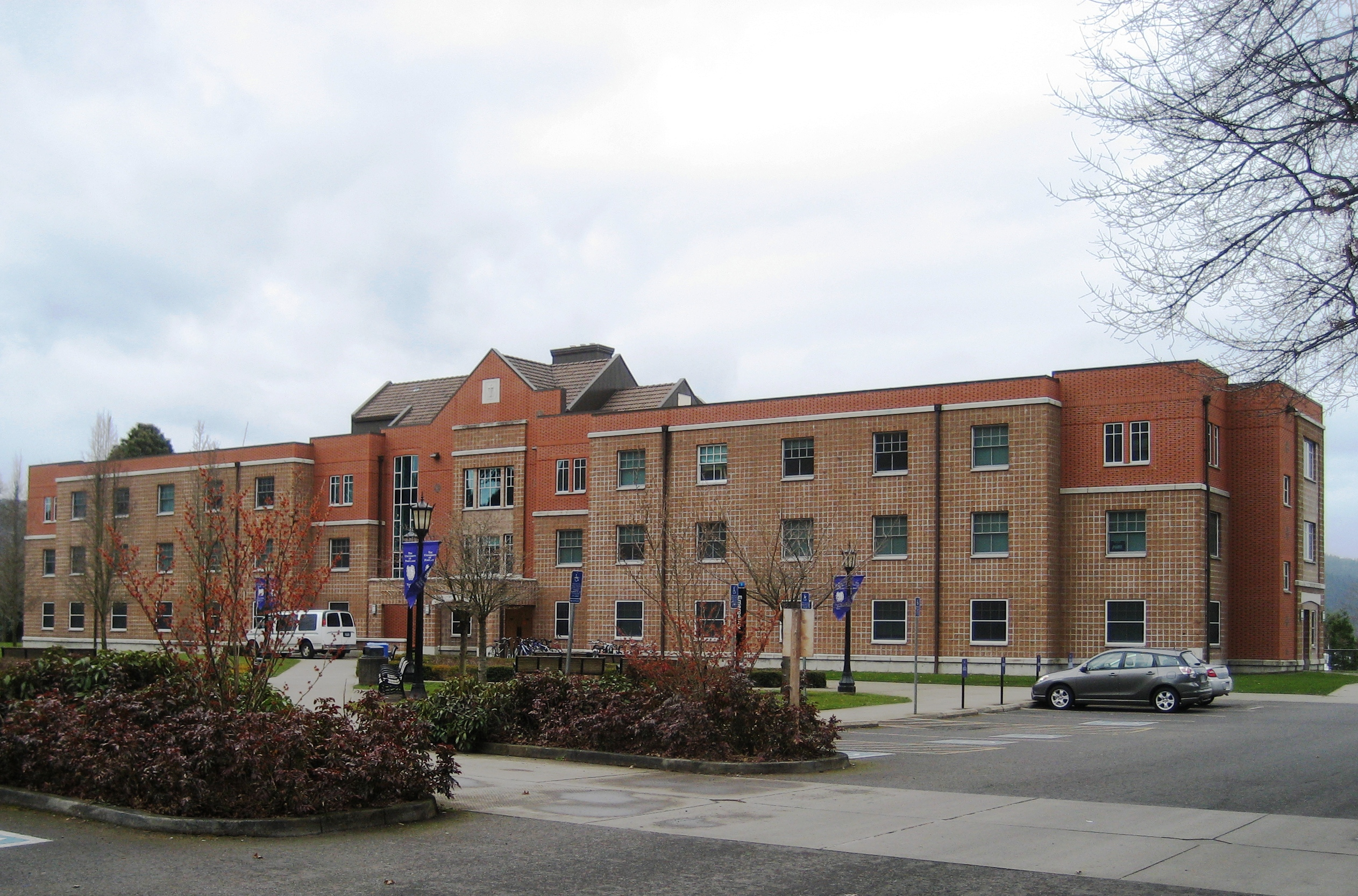 Corrado Hall at Univ. of Portland in Portland, Oregon, USA